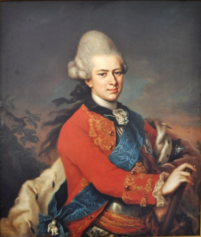 Portrait of Prince Charles of Hesse-Kassel (1744-1836)